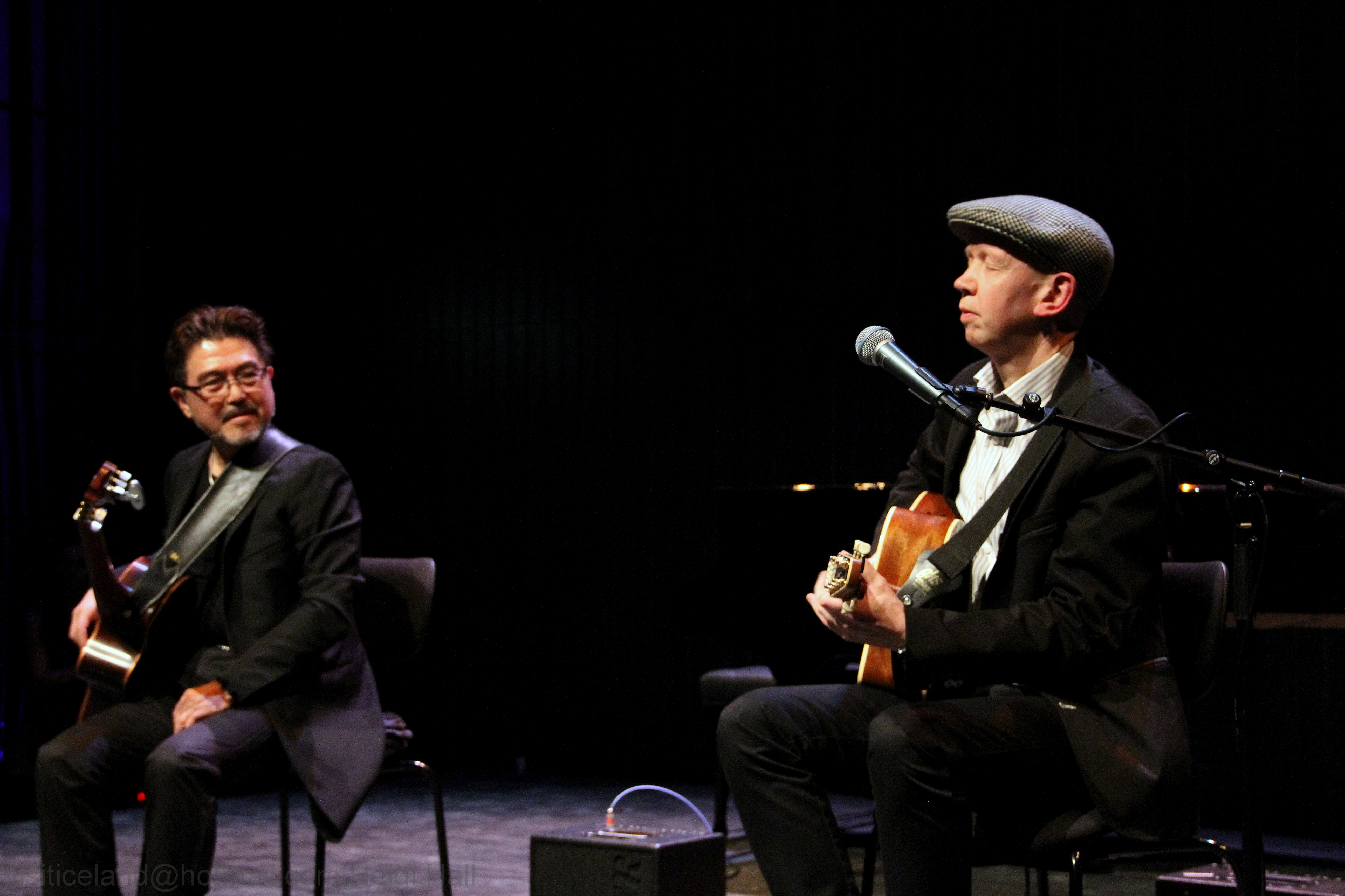 Bjorn Thoroddsen and Kazumi Watanabe.